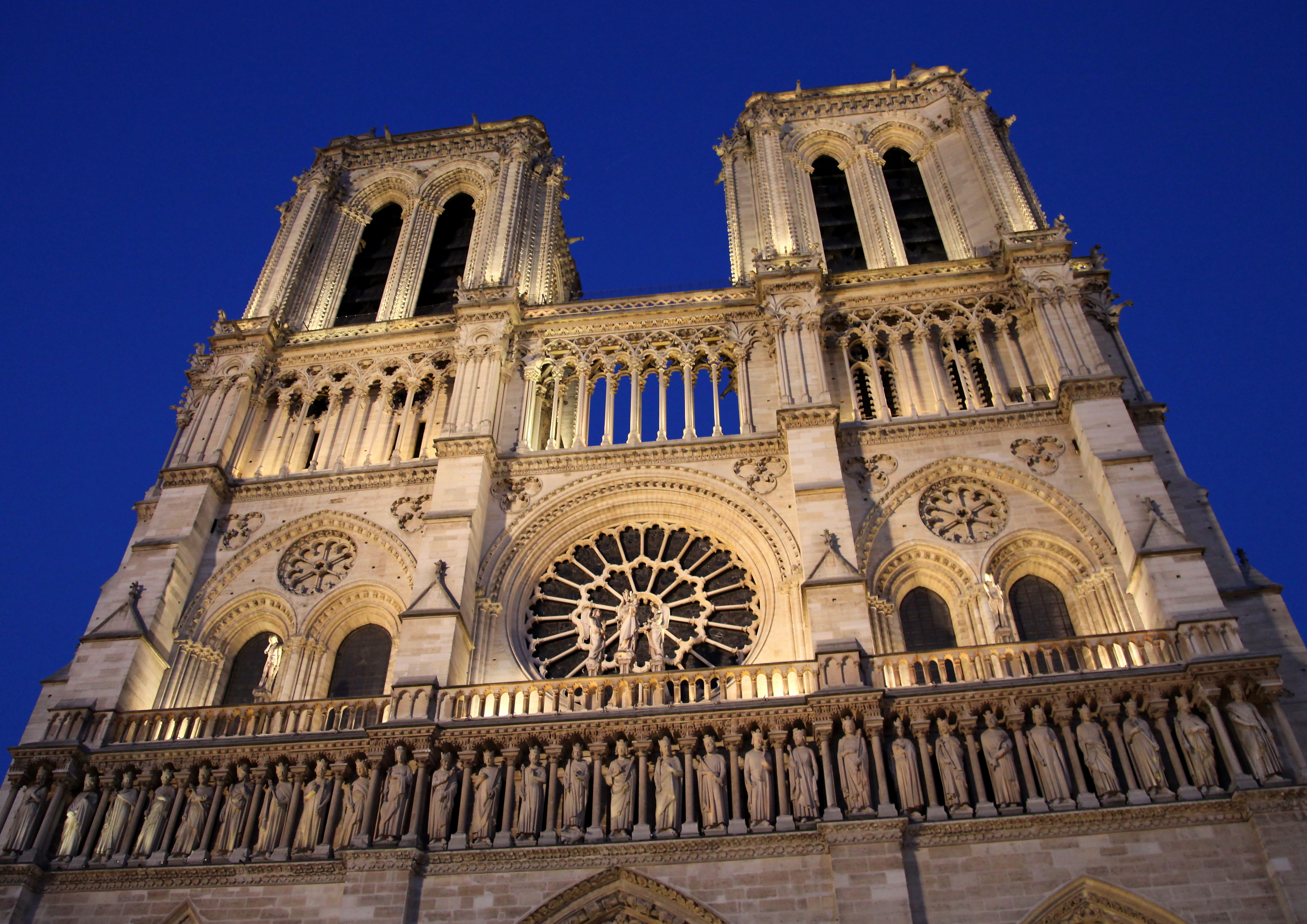 Notre Dame Cathedral